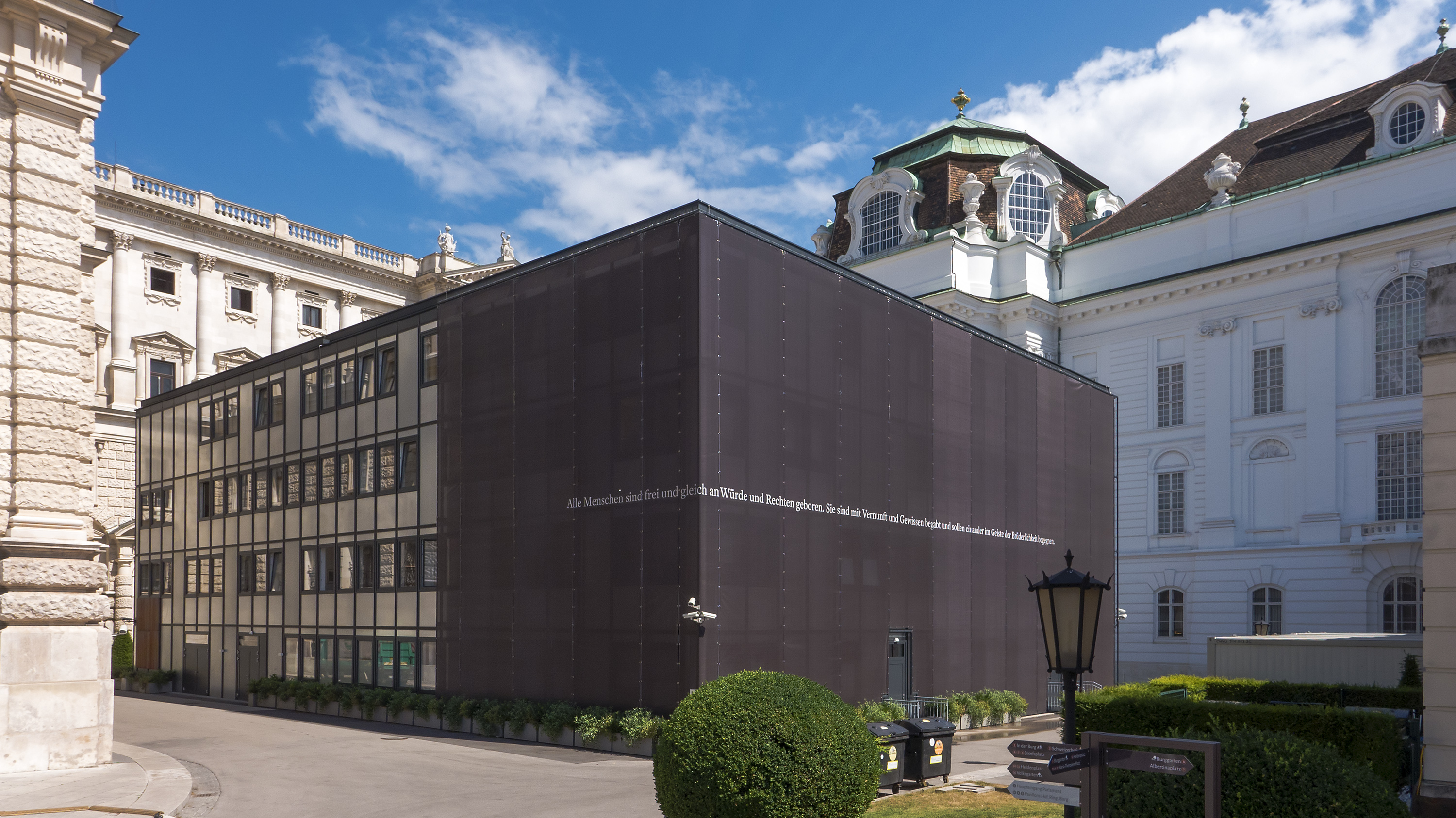 Provisional building of the Austrian Parliament at Hofburg in Vienna 1